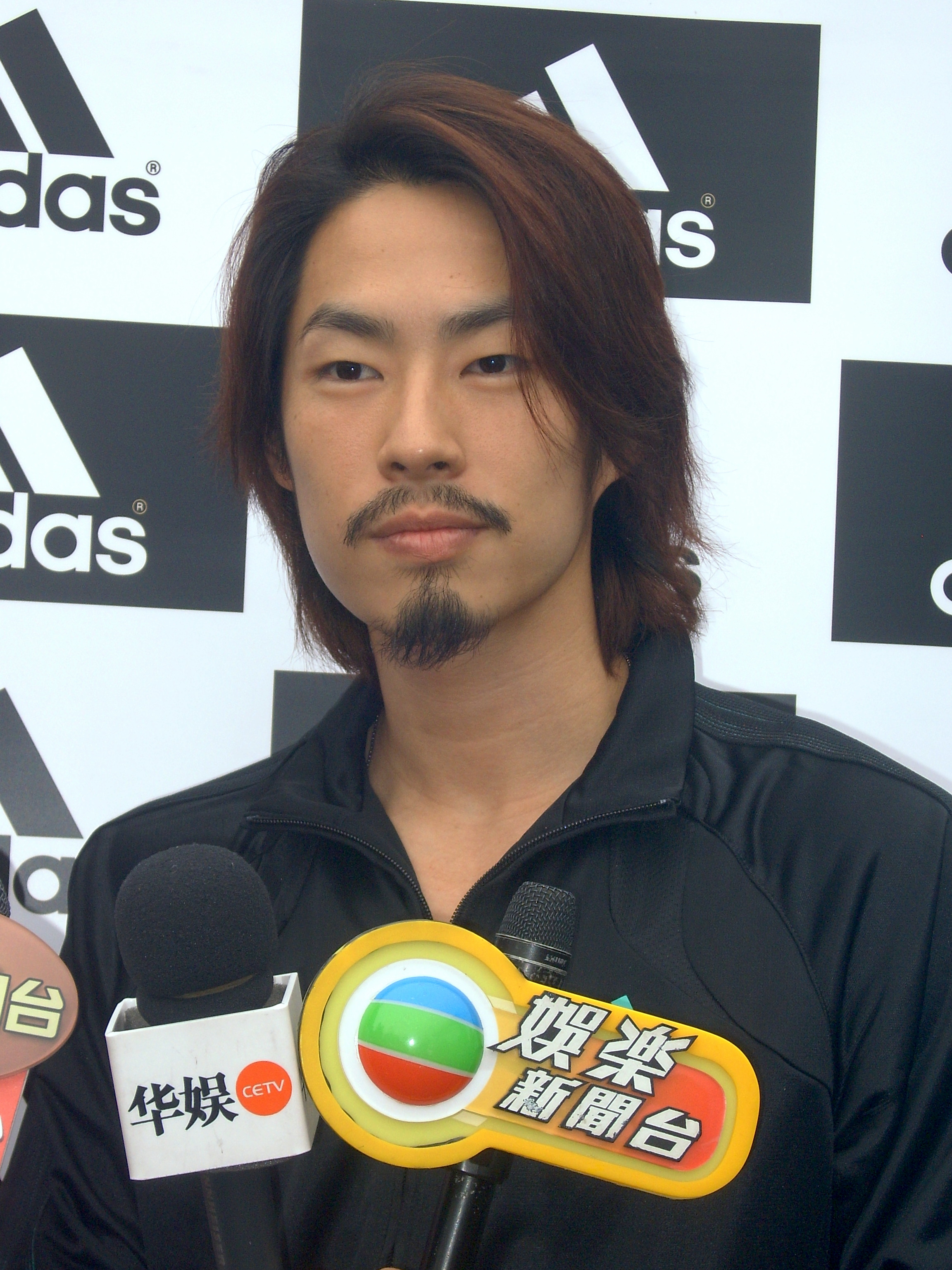 Adidas Run For 2008 Olympics in Taiwan: Vanness Wu.